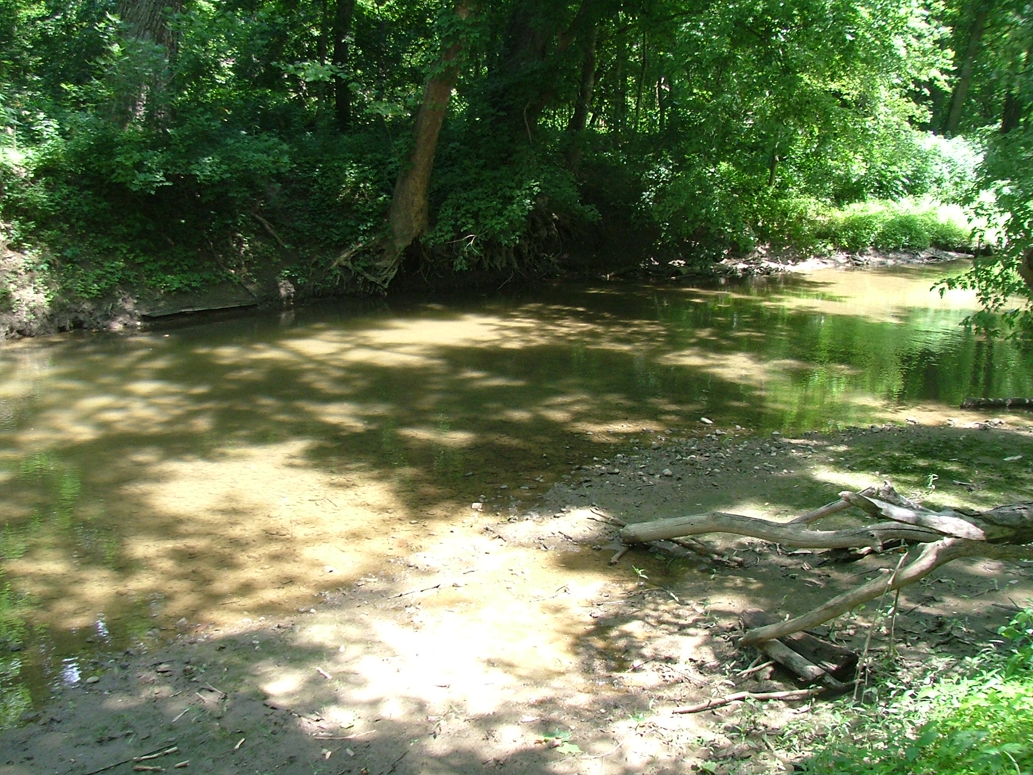 Blacklick Creek in the Three Creeks Metro Park